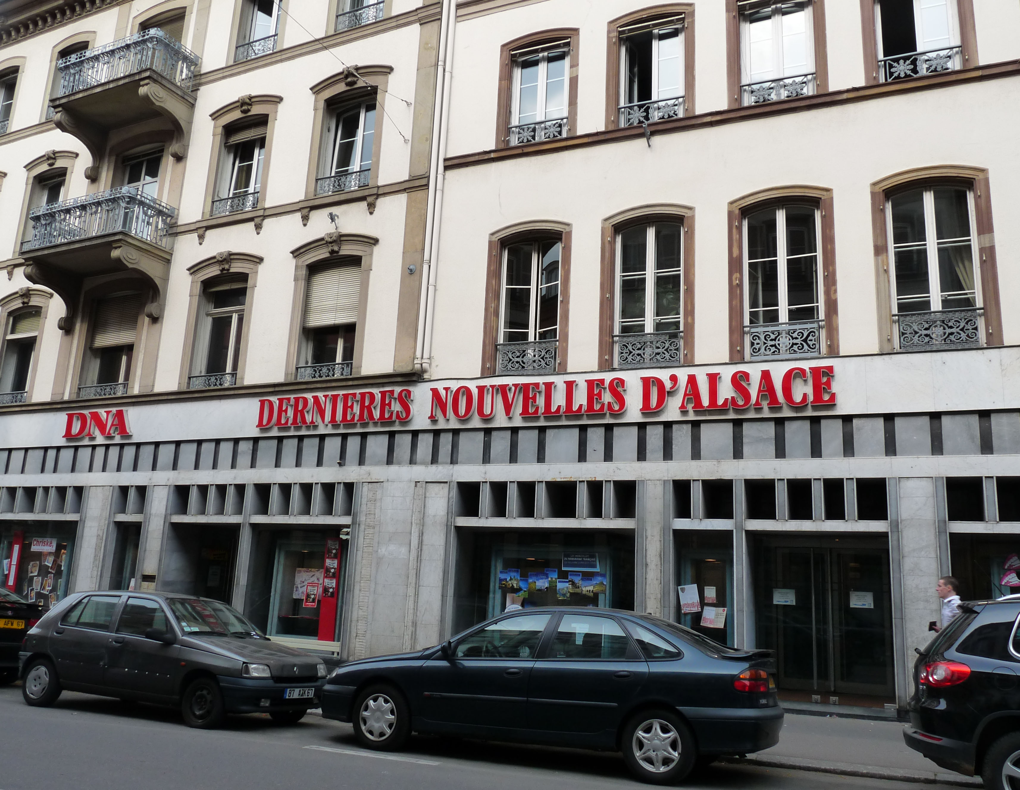 Headquarters of Alsatian newspaper Dernières nouvelles d'Alsace in Strasbourg